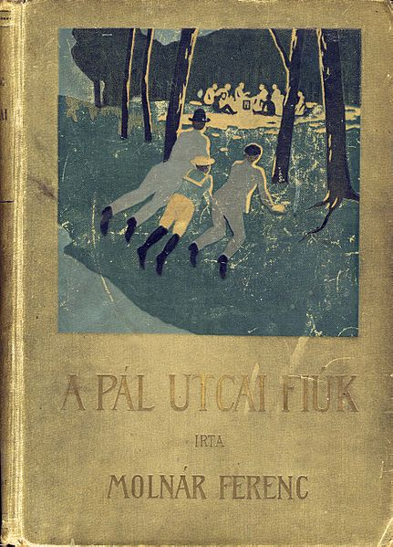 Cover of the book "The Paul Street Boys" (first expense, 1907) by Ferenc Molnár